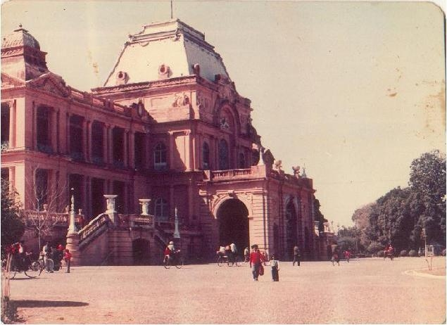 Jagatjit Palace - Kapurthala Sainik School (Kapurthala, Punjab, India)